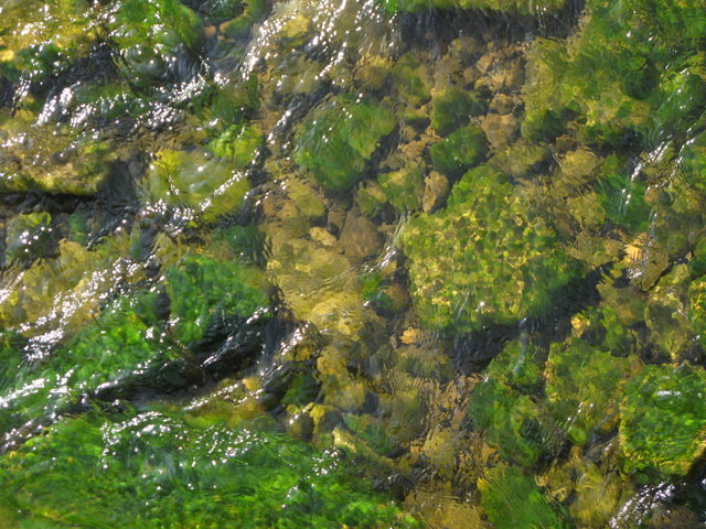 The bed of the River West Allen. Photo taken from the 704677.